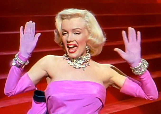 Cropped screenshot of Marilyn Monroe from the trailer for the film Gentlemen Prefer Blondes